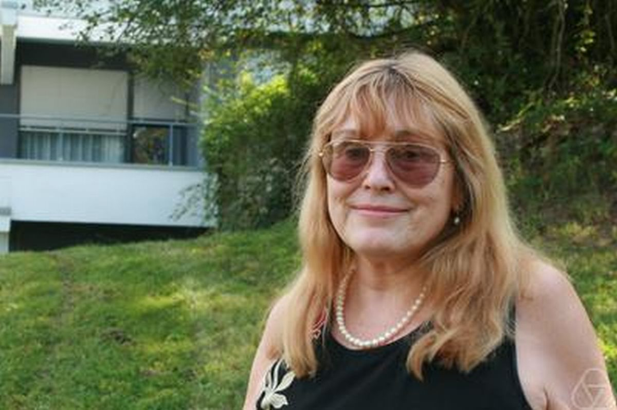 Susan Friedlander, Oberwolfach 2012, Organisator of Workshop Mathematical Aspects of Hydrodynamics